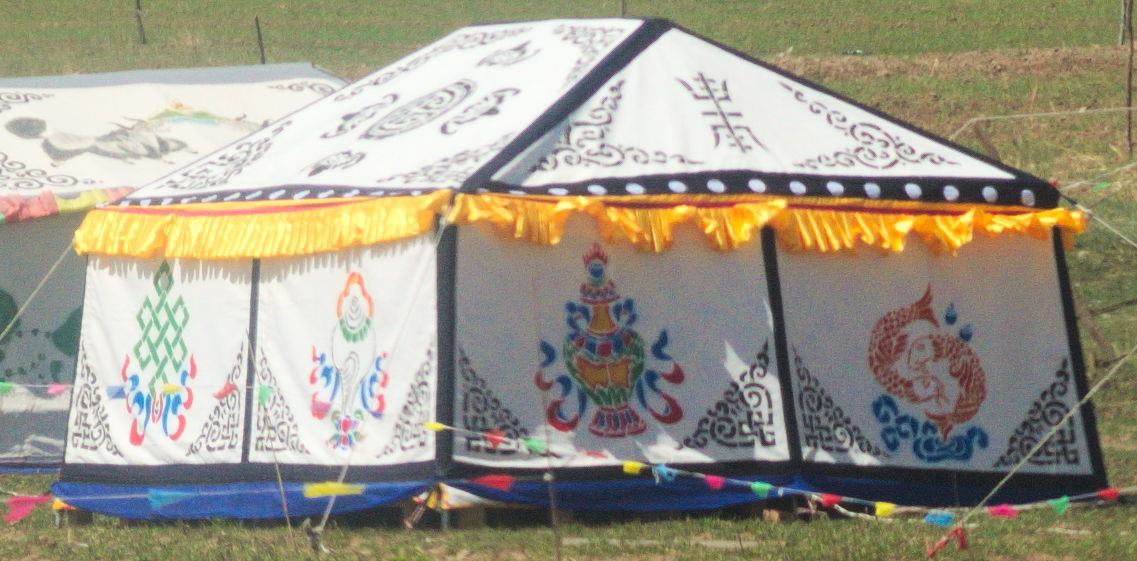 Yugur or Mongolian Asar maikhan (Асар майхан, litteraly pavilon tent, kind of yurt or tent)[5][6][7][8] in Qinghai plateau, near the Qinghai Lake (Kokonor or khökhnuur (Хөхнуур) in mongolian). Yugur are turkic and mongolian originated people.